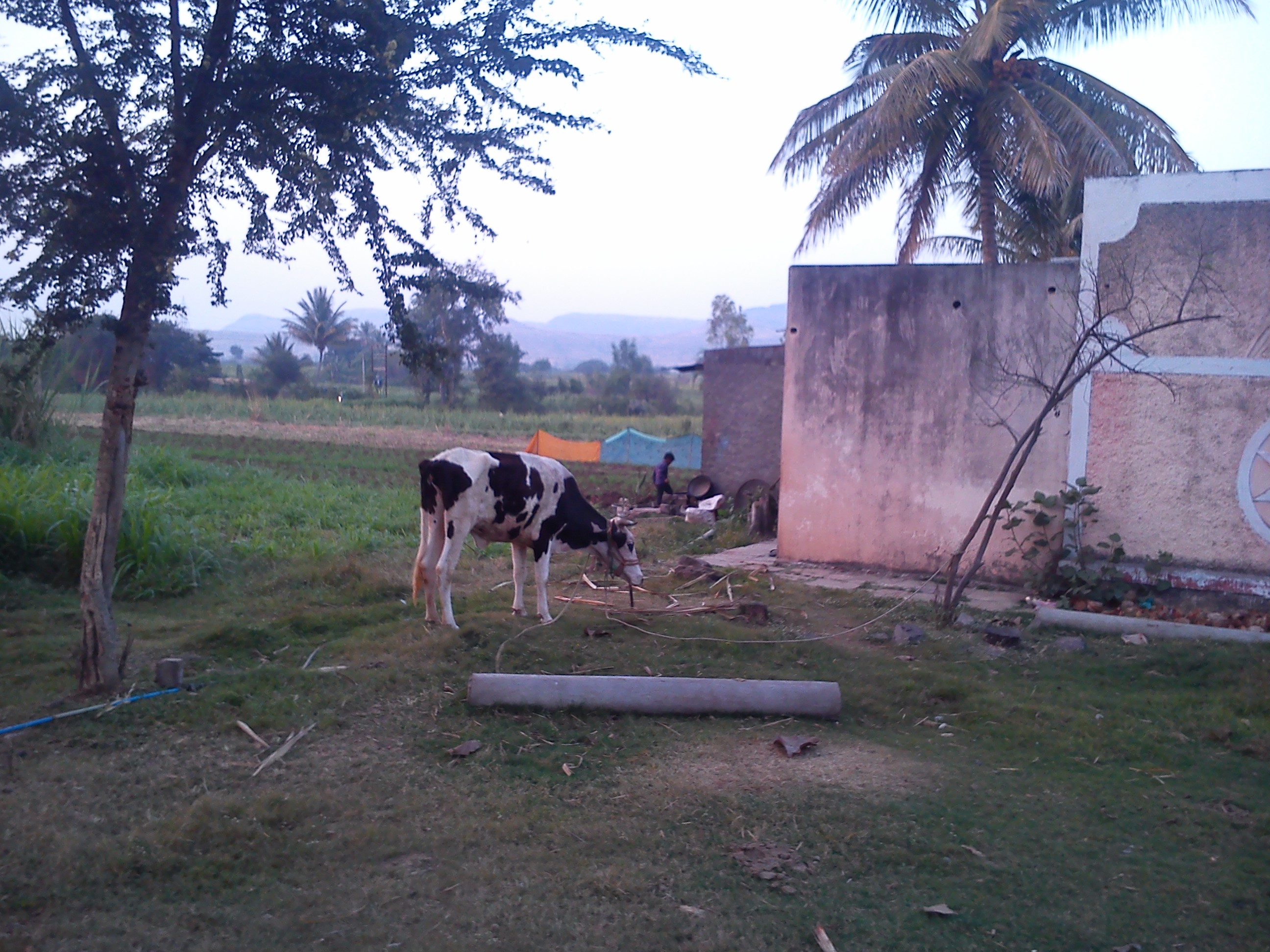 Karawadi